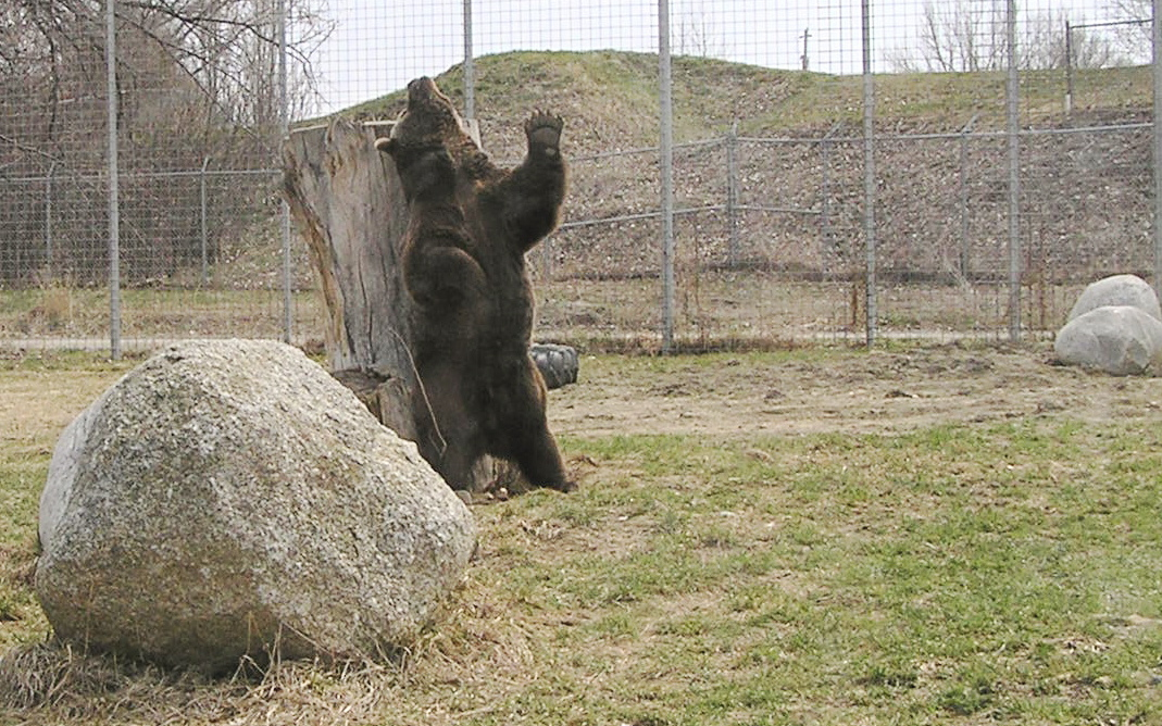 Grizzly bear, ZooMontana, Billings, Montana